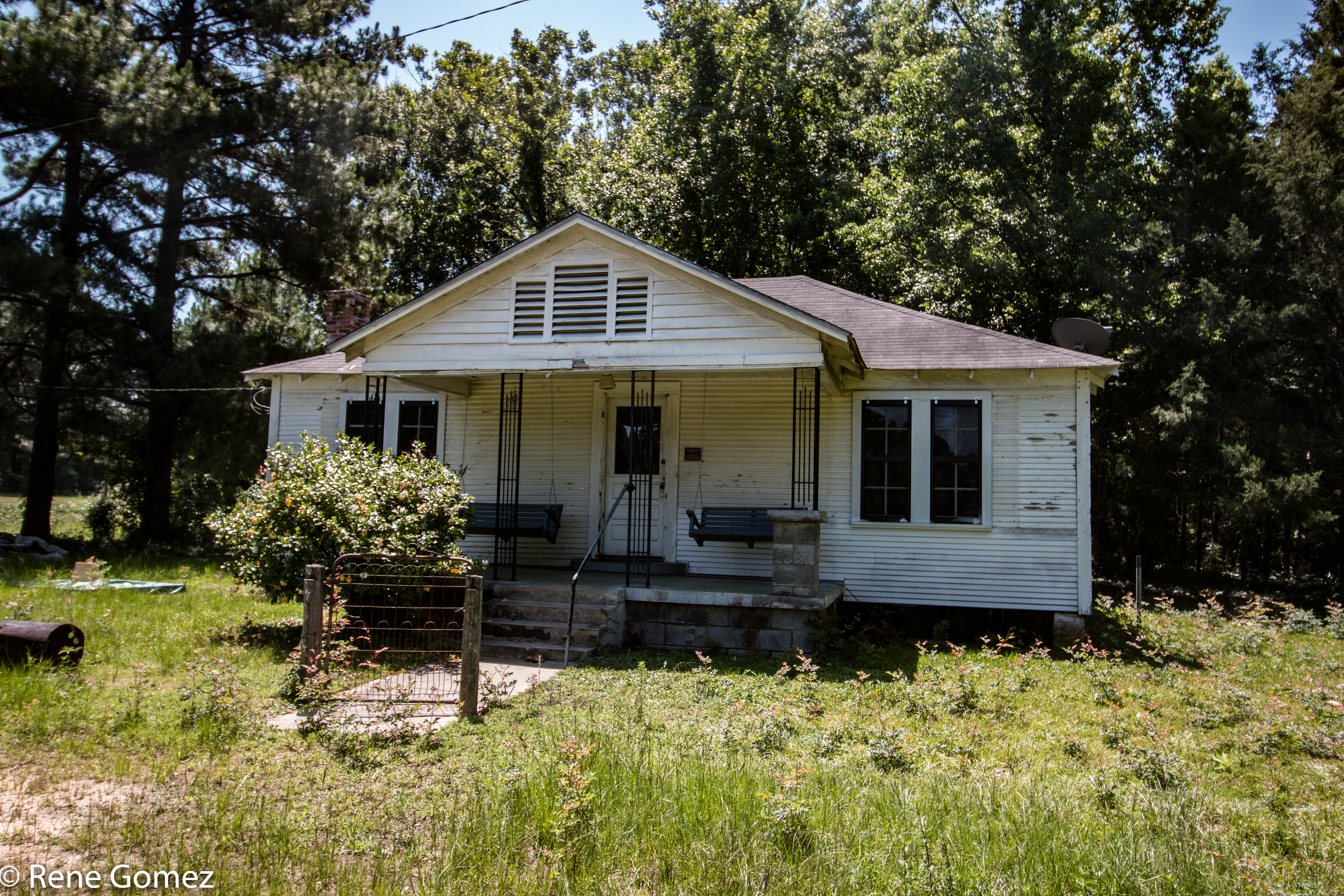 Addie L. and A.T. Odom Homestead outside Newton, Texas